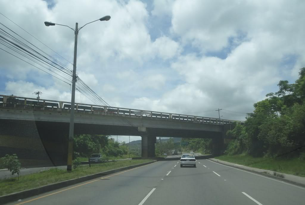 Anillo Periférico (beltway) at the Boulevard Suyapa overpass near the Basilica of the Virgin Suyapa in Tegucigalpa, Honduras.